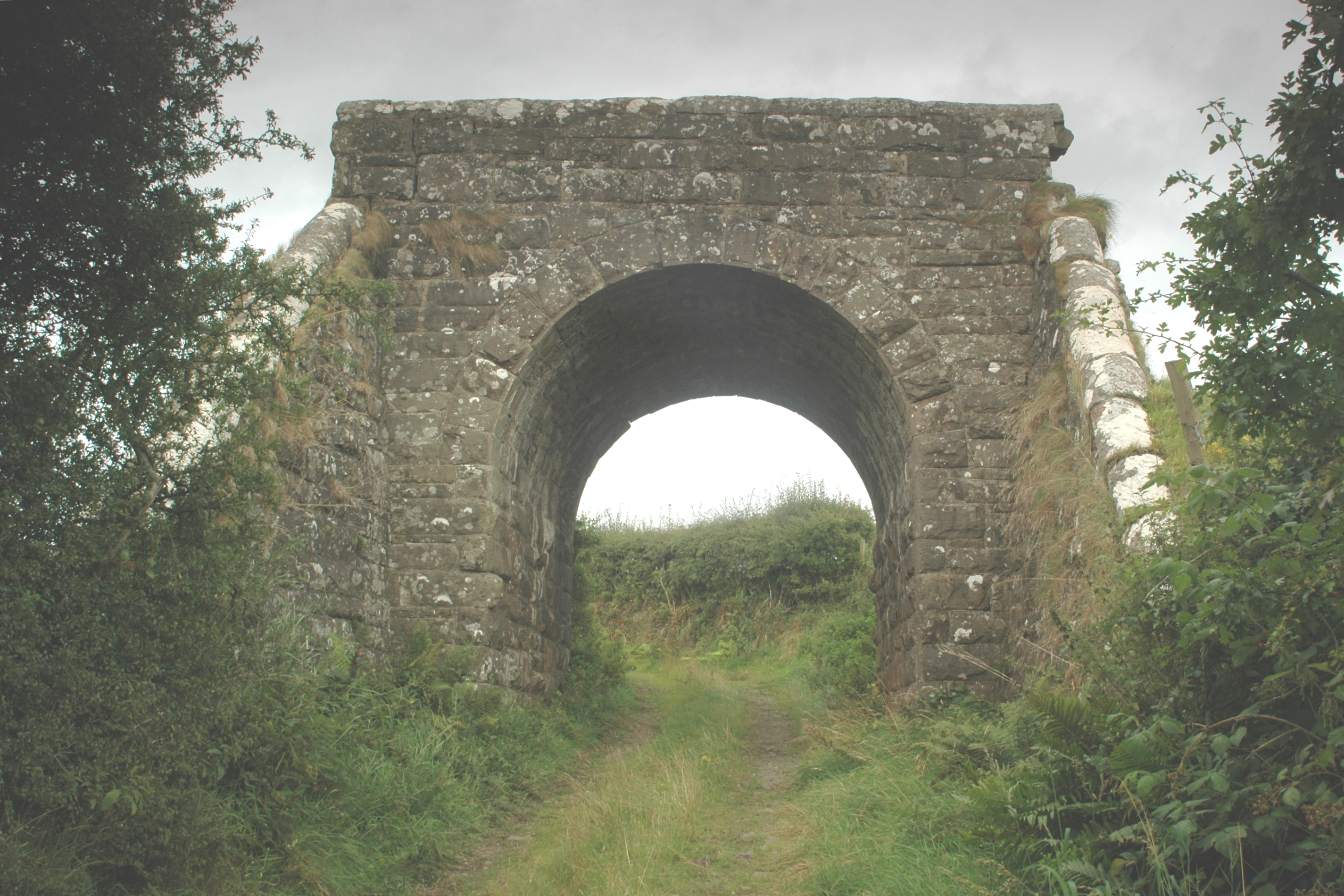 Disused bridge of former Portadown, Dungannon and Omagh Junction Railway over farm track, somewhere between Dungannon and Pomeroy, Co. Tyrone, N. Ireland. Built 1858-61.